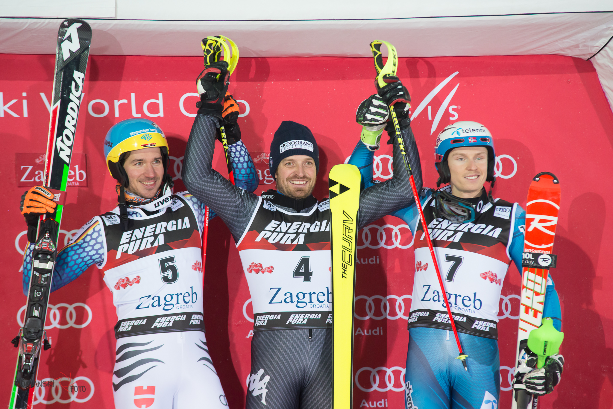 Moelgg Manfred, Neureuther Felix, and Kristoffersen Henrik after the FIS Alpine World Cup slalom race in Zagreb (5th January 2017)